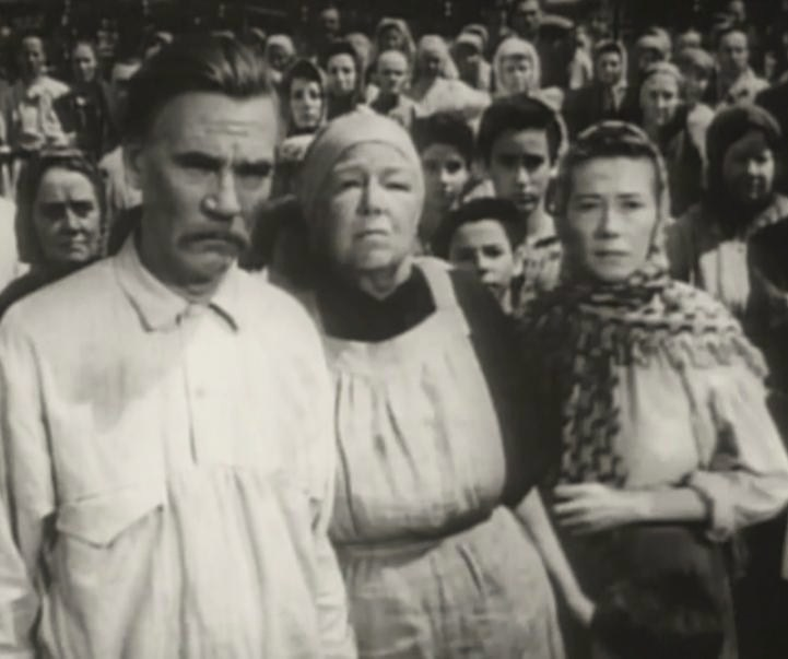 Left to right: Walter Huston, Esther Dale, and Ruth Nelson in The North Star (1943) - cropped screenshot